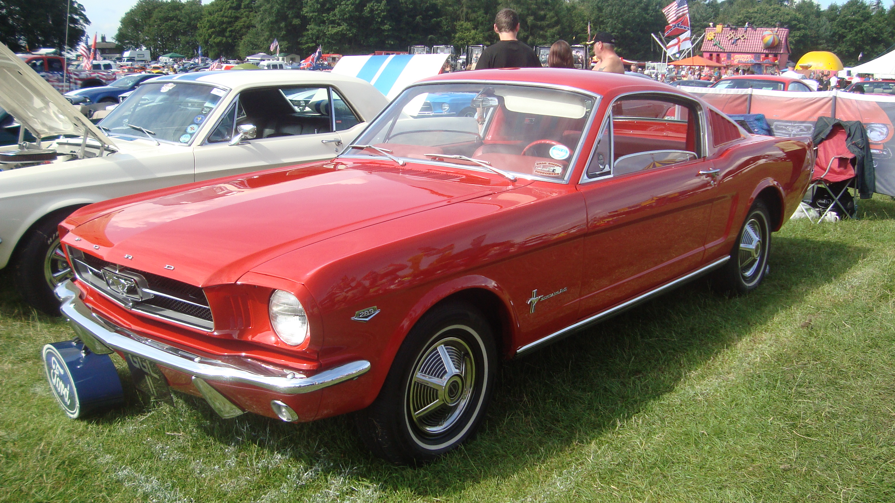 Lovely car this, the owners are friends of my family and also own a Mini and a 1950's Holden pick up